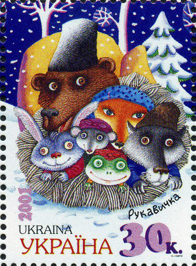 Stamps of Ukraine, 2001